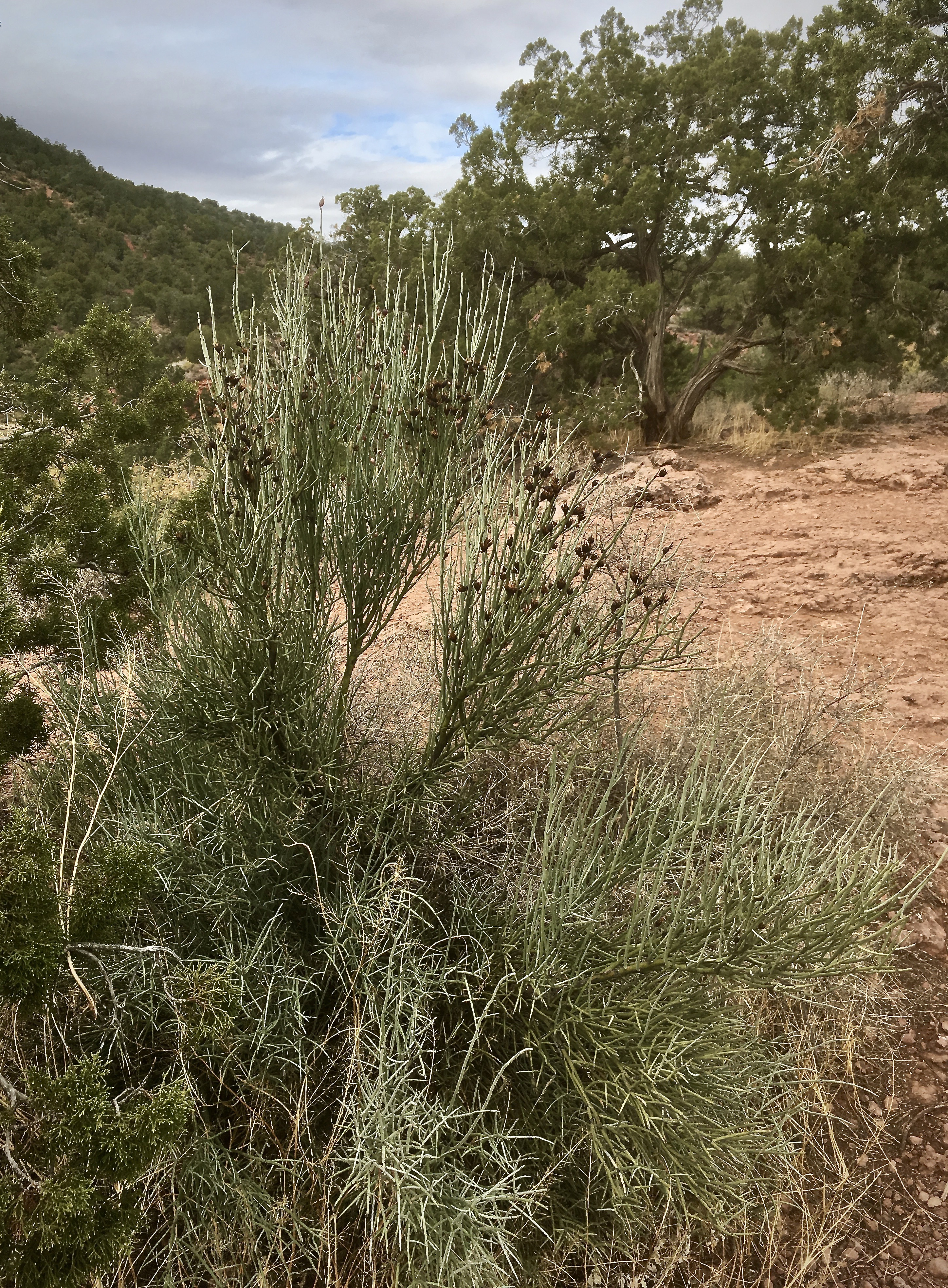 An uncommon desert shrub or small tree, fairly common in the high desert mountains and mesas of central Arizona. Another, poorer common name is "false Palo Verde".